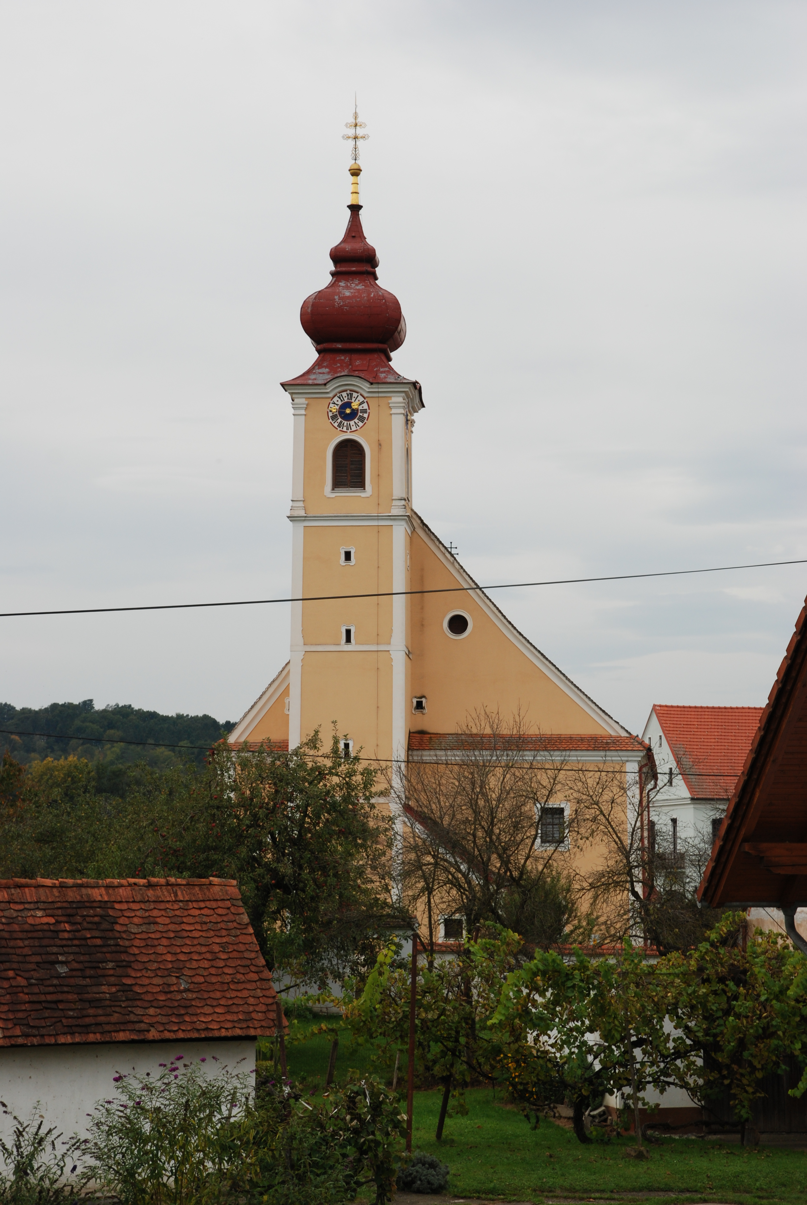 Kirche Hainersdorf